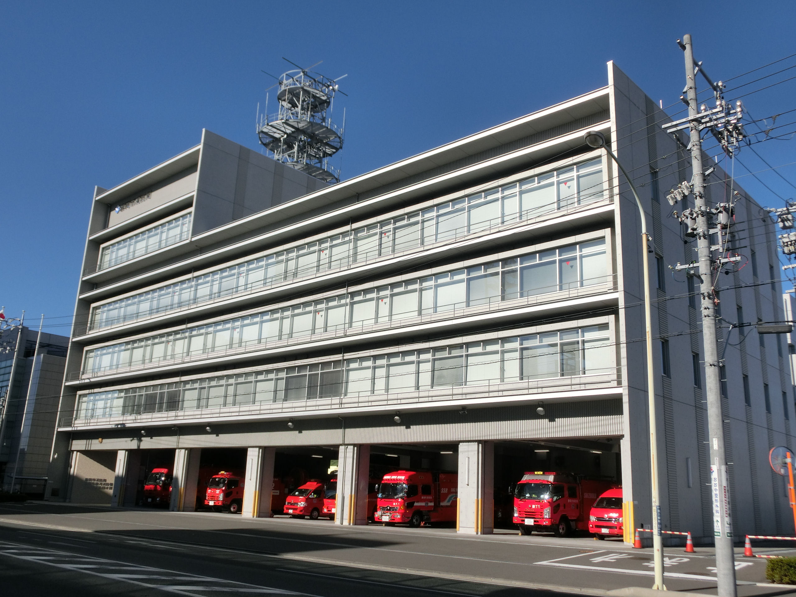 Shizuoka City Fire Department